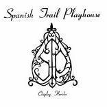 the logo